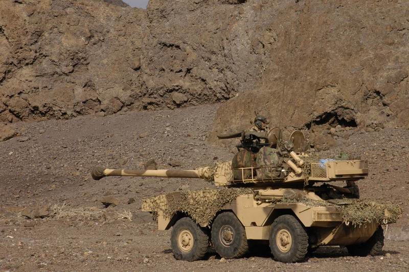 French ERC 90 Sagaie of the reconnaissance squadron of the 13th Foreign Legion Demi-Brigade near Djibouti in 2005